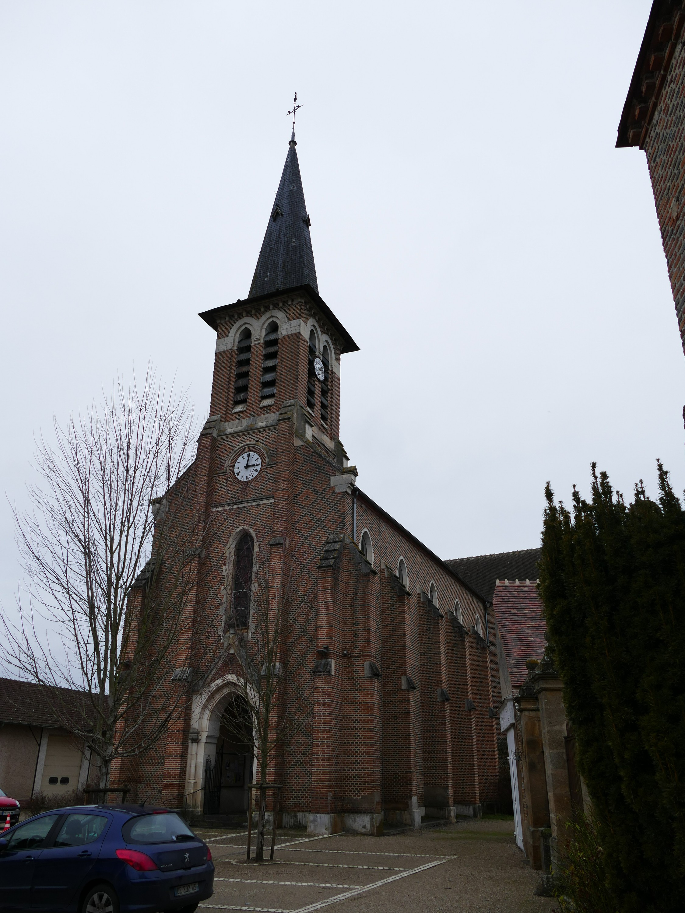 Saint-Julien's church in Neuilly-le-Réal (Allier, Auvergne, France).